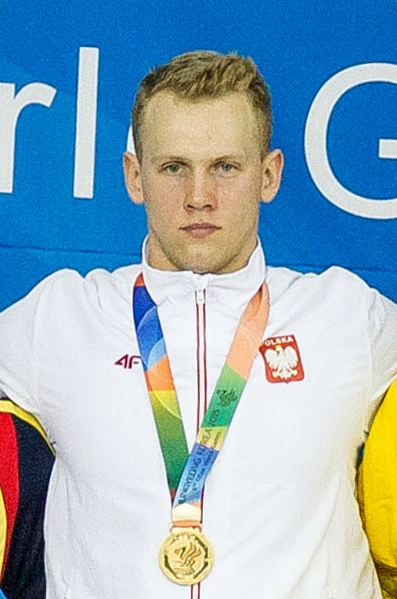 Tomasz Polewka. Foto: Sgt Johnson Barros